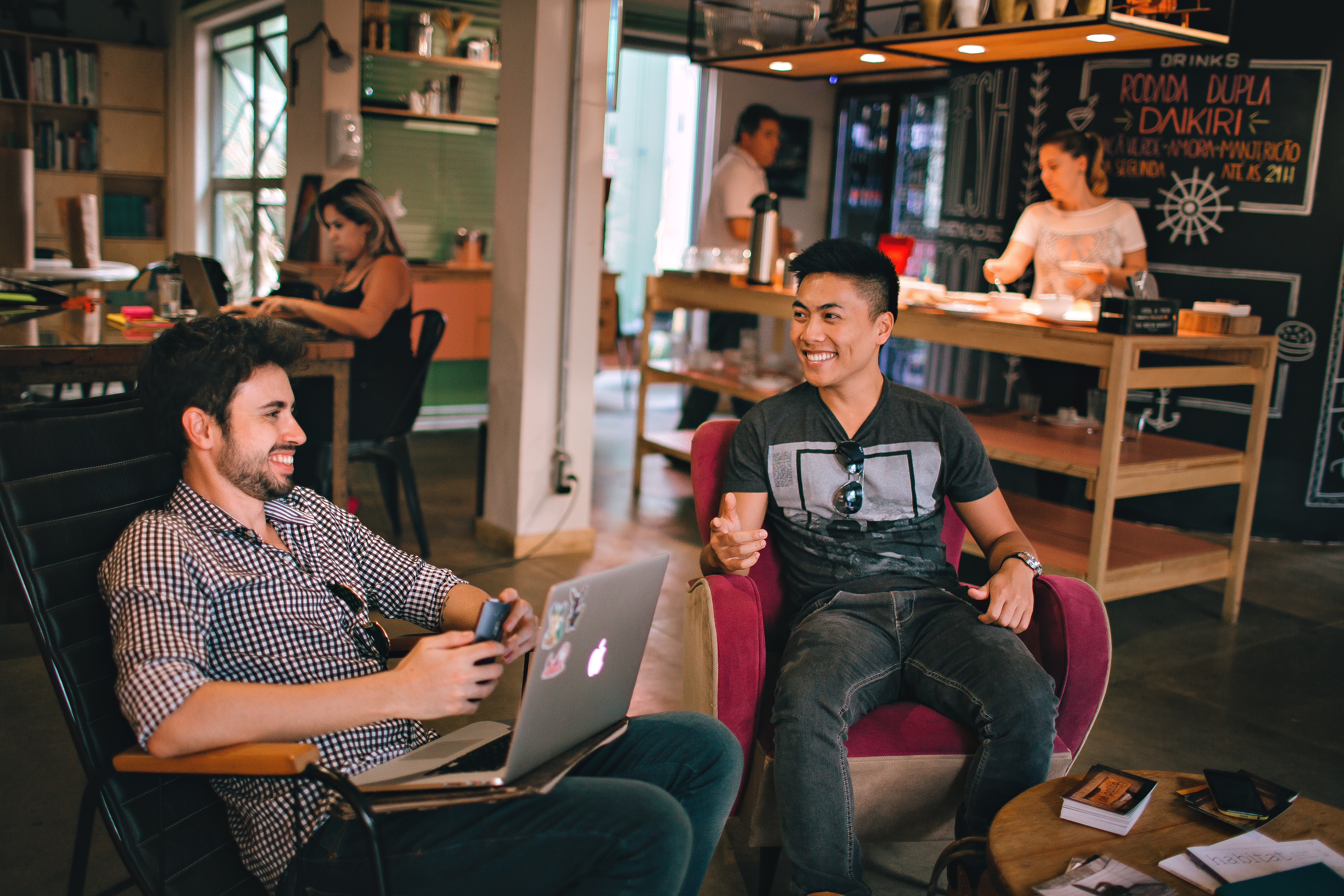 students teamwork in a coffeehouse